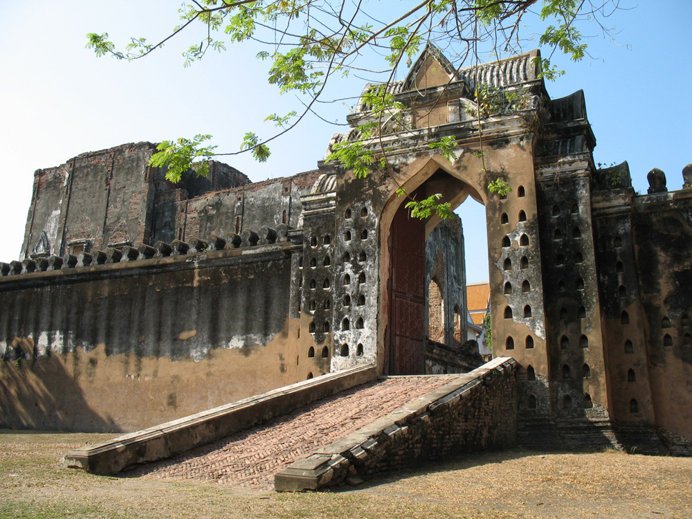 Inner Gate, King Narai's Palace, Lopburi Province.